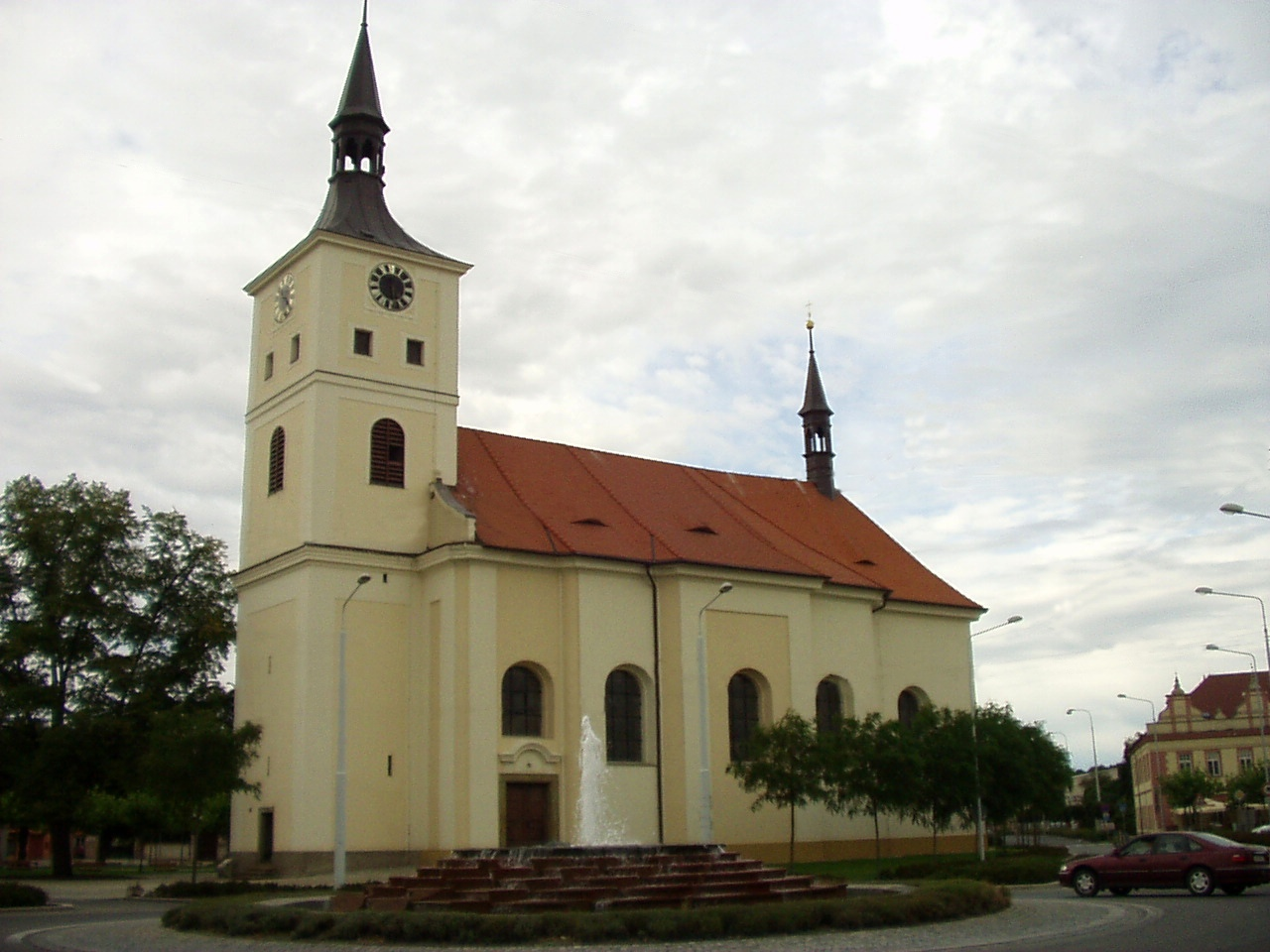 Church of St Mary Magdalene in Lázně Bohdaneč, Czech Republic.